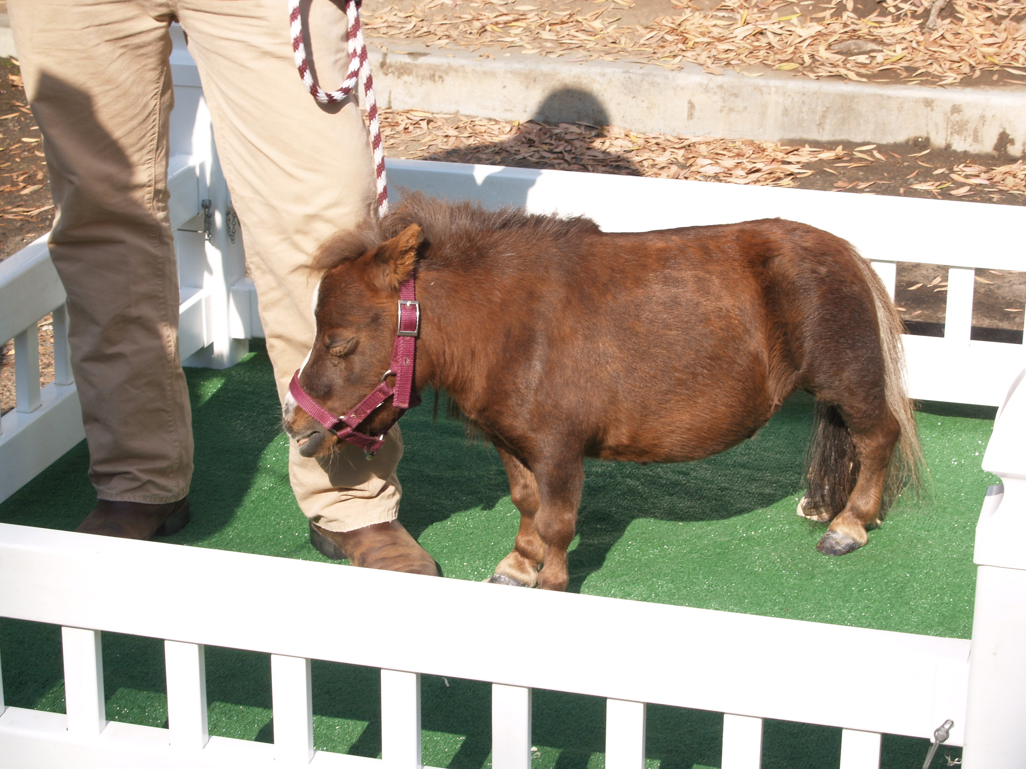 Thumbelina, the world's smallest horse (17 inches high) in San Diego by Phil Konstantin